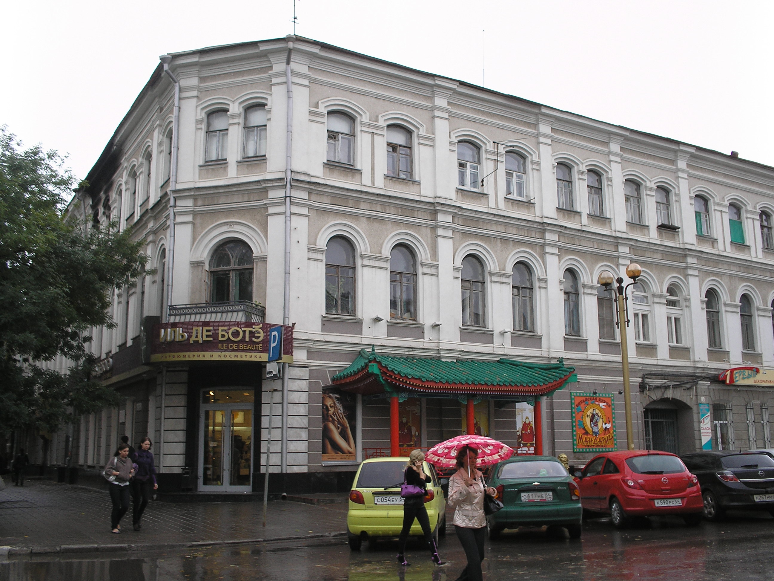 Saratov. The house in which lived Yablochkov (1893-1894)